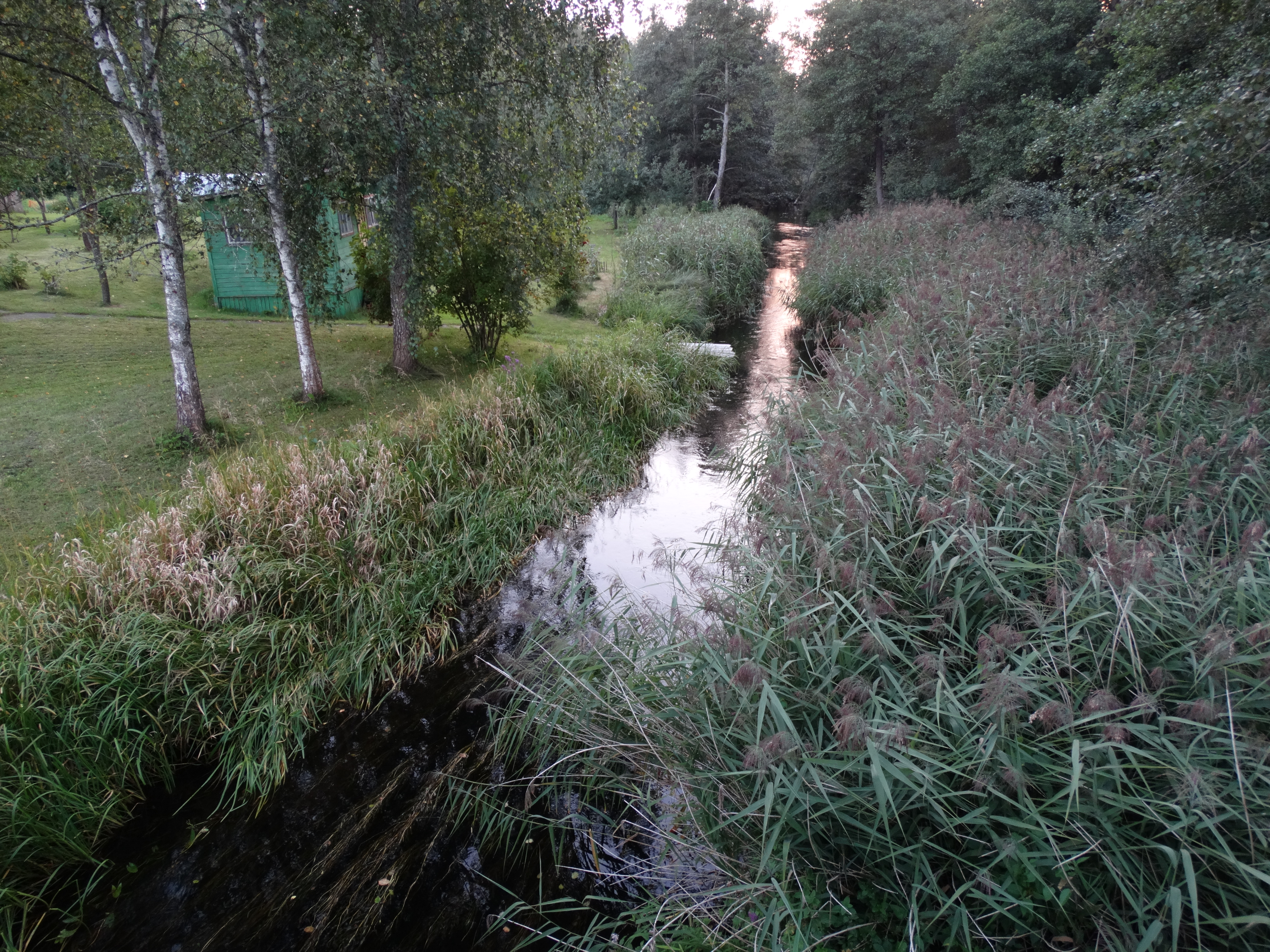 Dubinga River by Kabakėlis, Švenčionys District, Lithuania